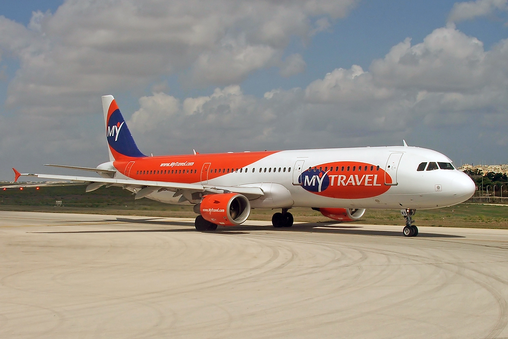 MyTravel Airbus A321 (G-NIKO) awaiting departure from Malta Luqa Airport by Tom Collins